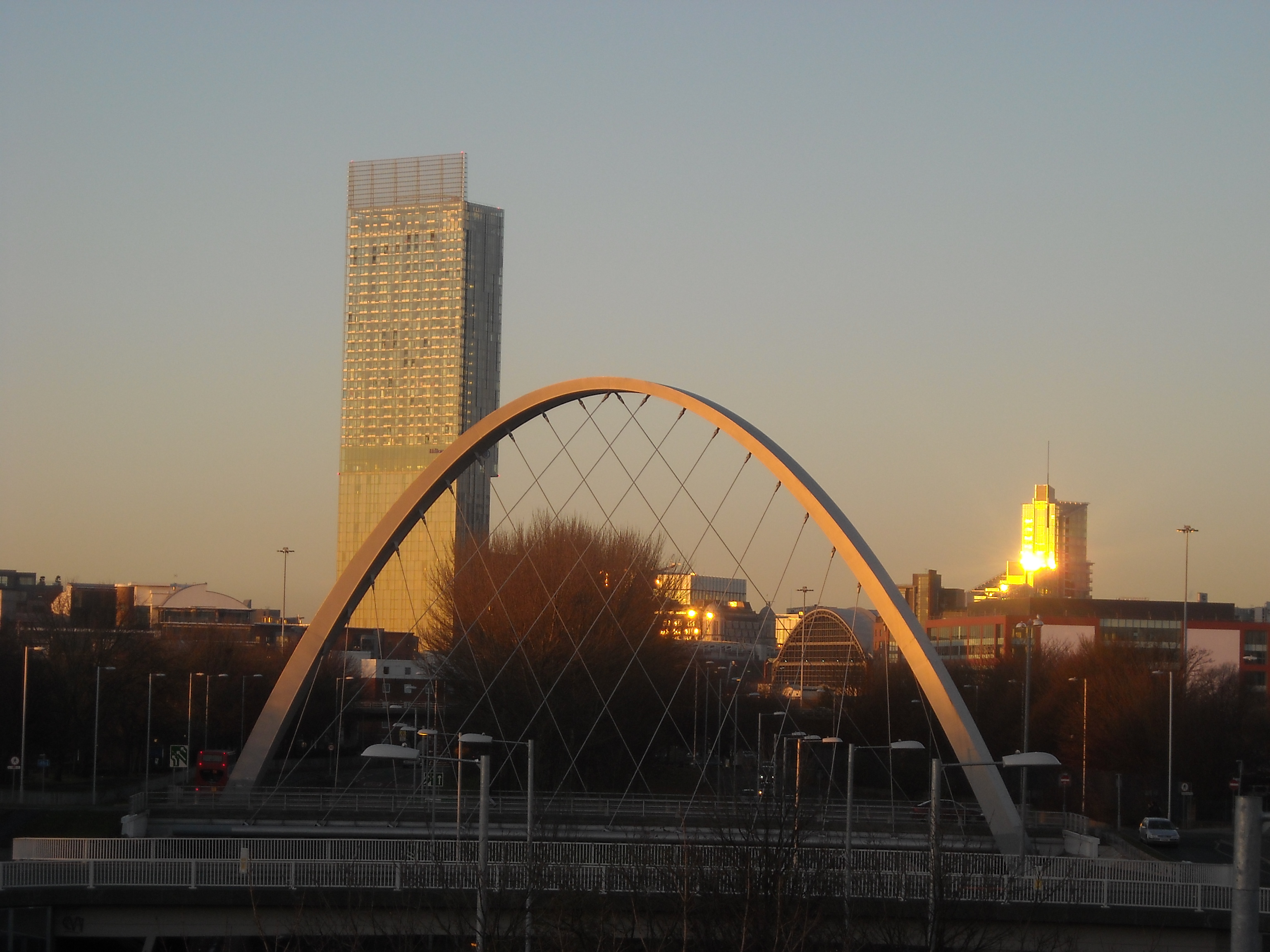 The Hulme Arch (1997) and Beetham Tower (2006). Taken from the footbridge that crosses over Princess Road.